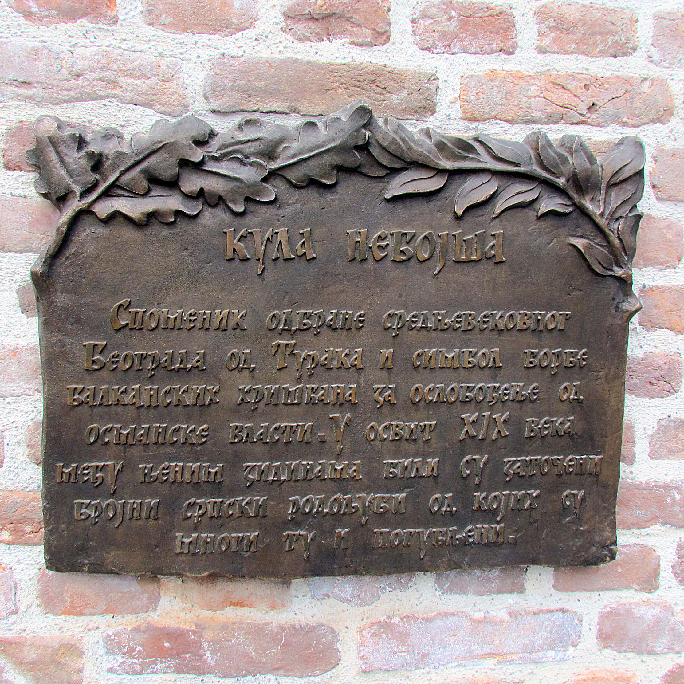 Nebojša Tower information